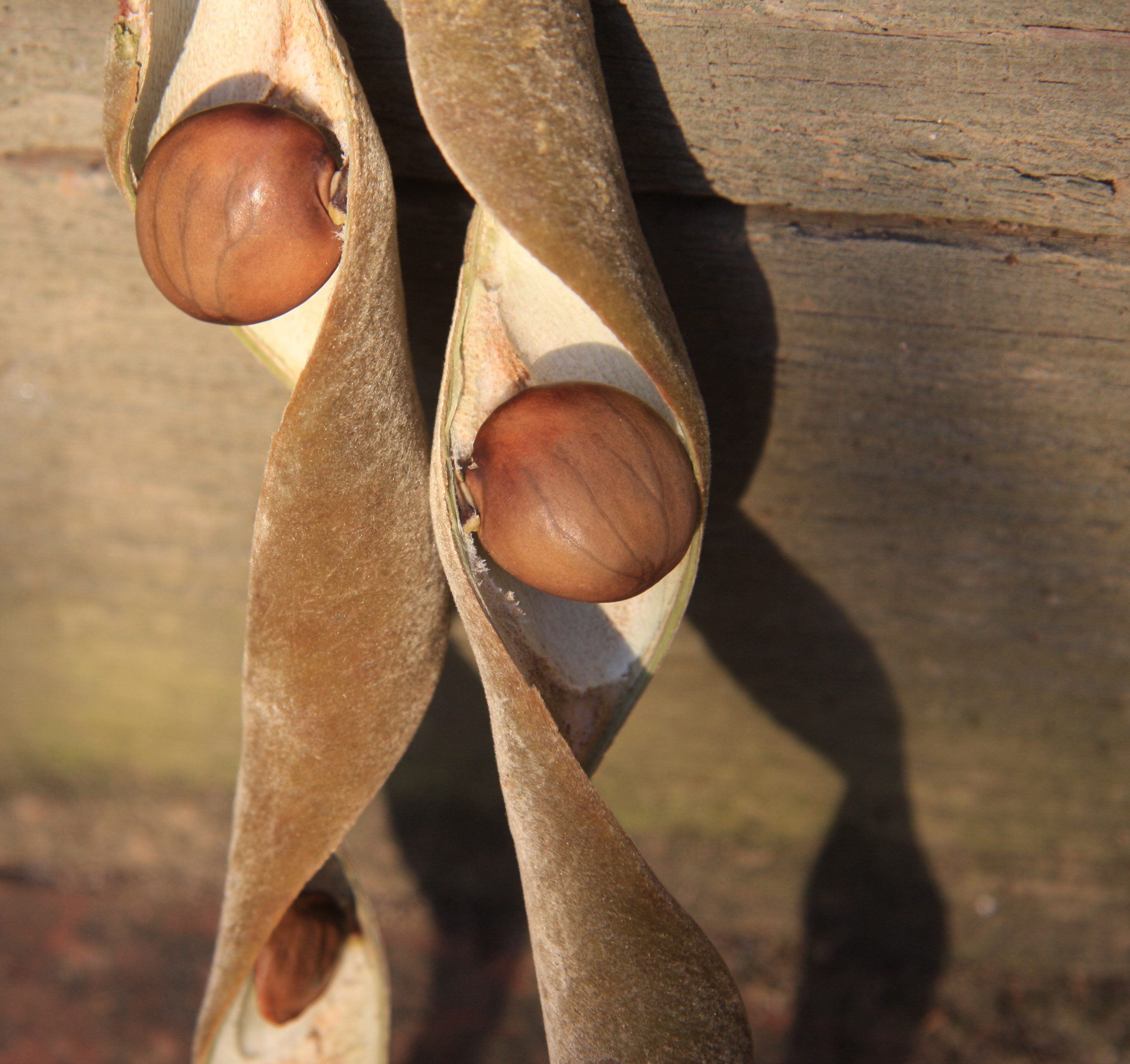 American wisteria (Wisteria frutescens) large seeds (about 2cm or 3/4 inch across), attached inside the halves of their fuzzy seedpod, curled after opening and partial drying. Duke Forest Korstian Division, Durham, North Carolina, USA.